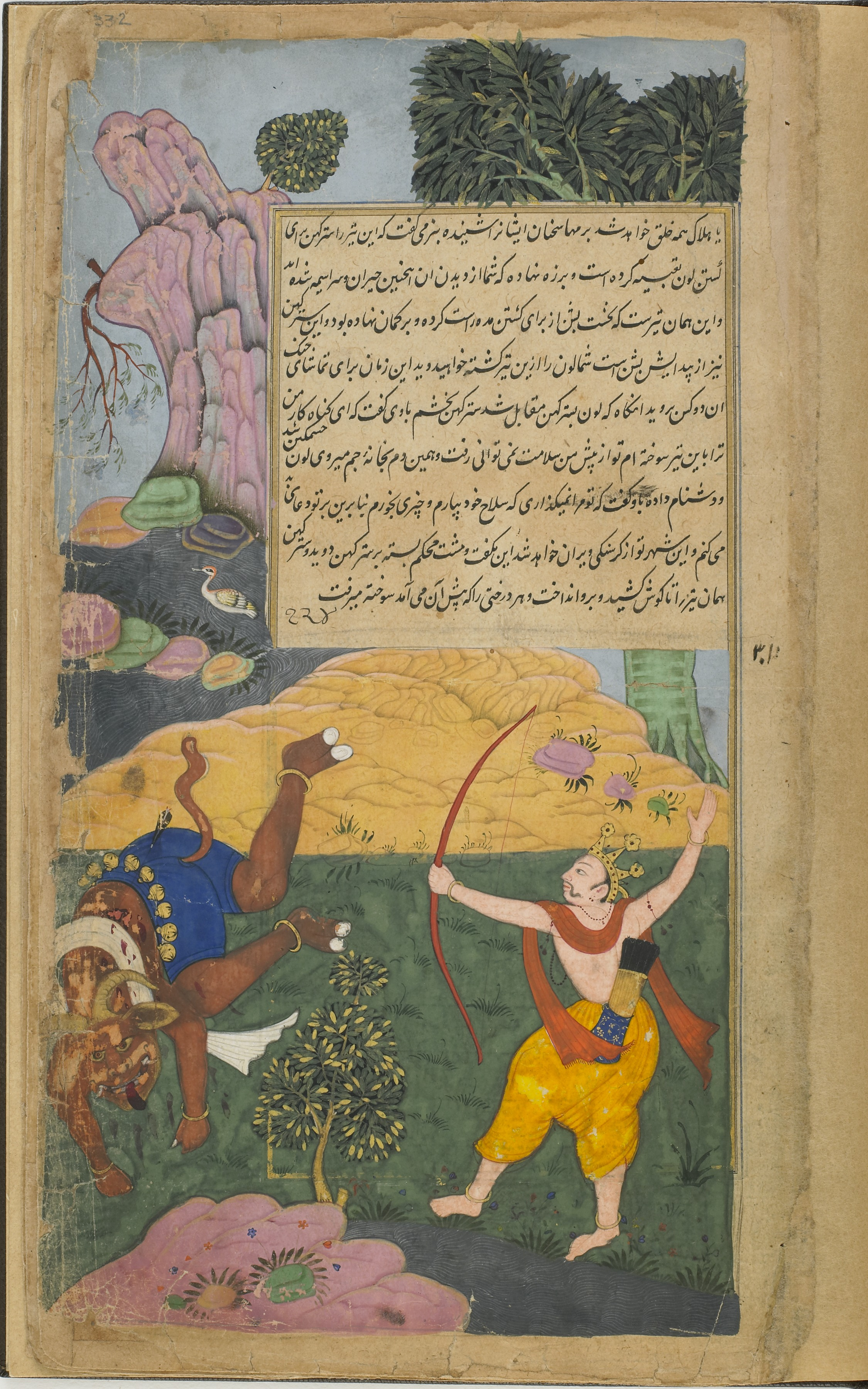 Folio from the Ramayana of Valmiki (The Freer Ramayana), Vol. 2, folio 332; recto: Satrughna slays Lavana; verso: text 1597-1605 Qasim , (Indian, Mughal dynasty Opaque watercolor, ink, and gold on paper H: 27.5 W: 15.2 cm Northern India Gift of Charles Lang Freer F1907.271.332